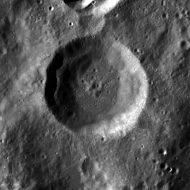 LROC image of Holetschek lunar crater